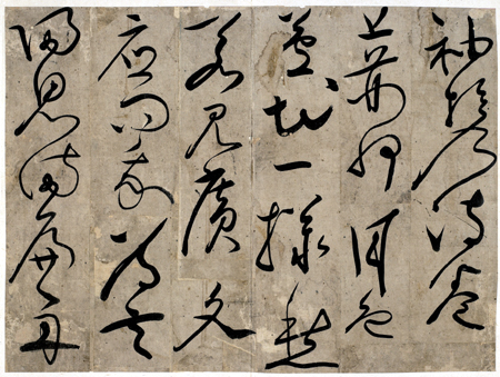 Korean Indifendunce Activitits Oh Se-chang's letters